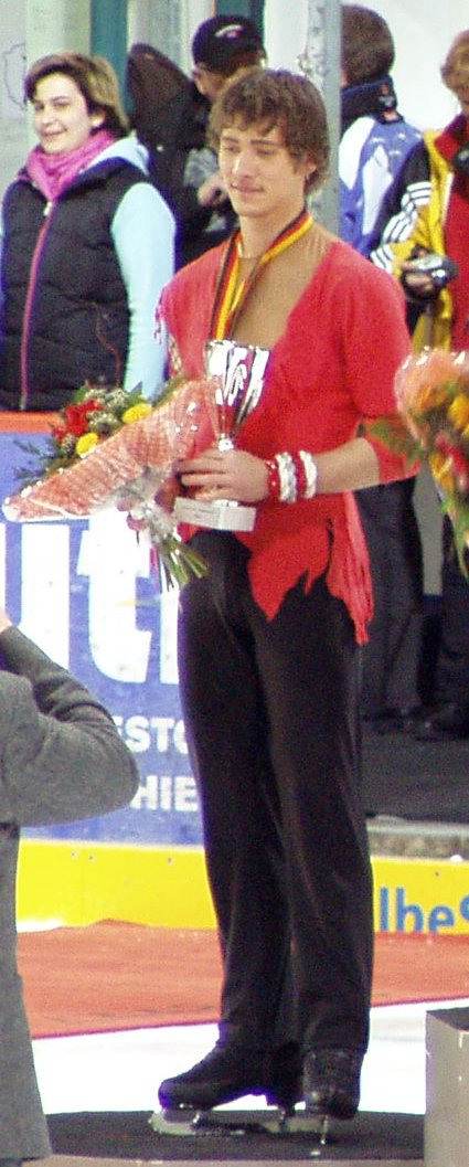 Silvio Smalun at the German championships 2006 in Berlin. He won the silver medal.